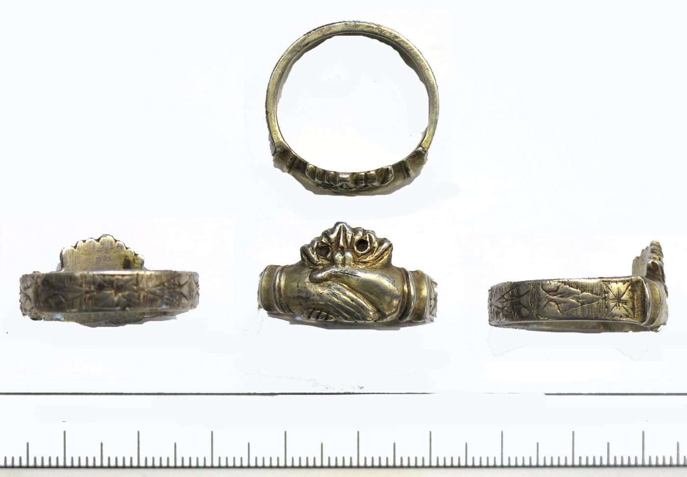 Silver Medieval 'fede' finger-ring. The bezel consists of two clasped hands with a crown above. The crown has two circular hollows in, perhaps for a stone/enamel but nothing now remains. The hoop is decorated with an inscribed pattern which consists of; three squares, at equal interval which have an X filling them and three short lines on the inside of each side. In between the squares are two possible leaf-type motifs.